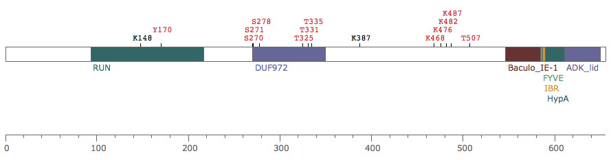 Modification sites on Homo sapiens RUFY2 protein. Amino acid residue and corresponding amino acid number are depicted in the diagram. Red letters represent phosphorylation sites with the exception of K468, K476, K482 and K487 which are acetylation sites. S=Serine, T=Threonine, Y=Tyrosine and K=Lysine